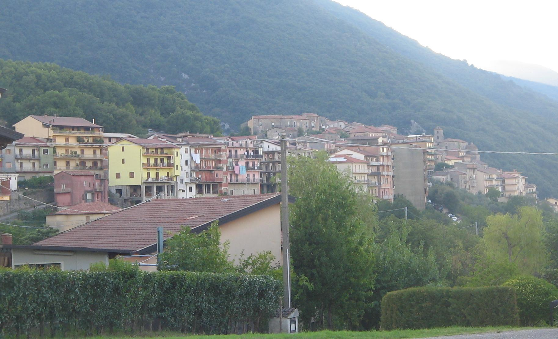 Panoramic view of Felitto from the southern side of the town.